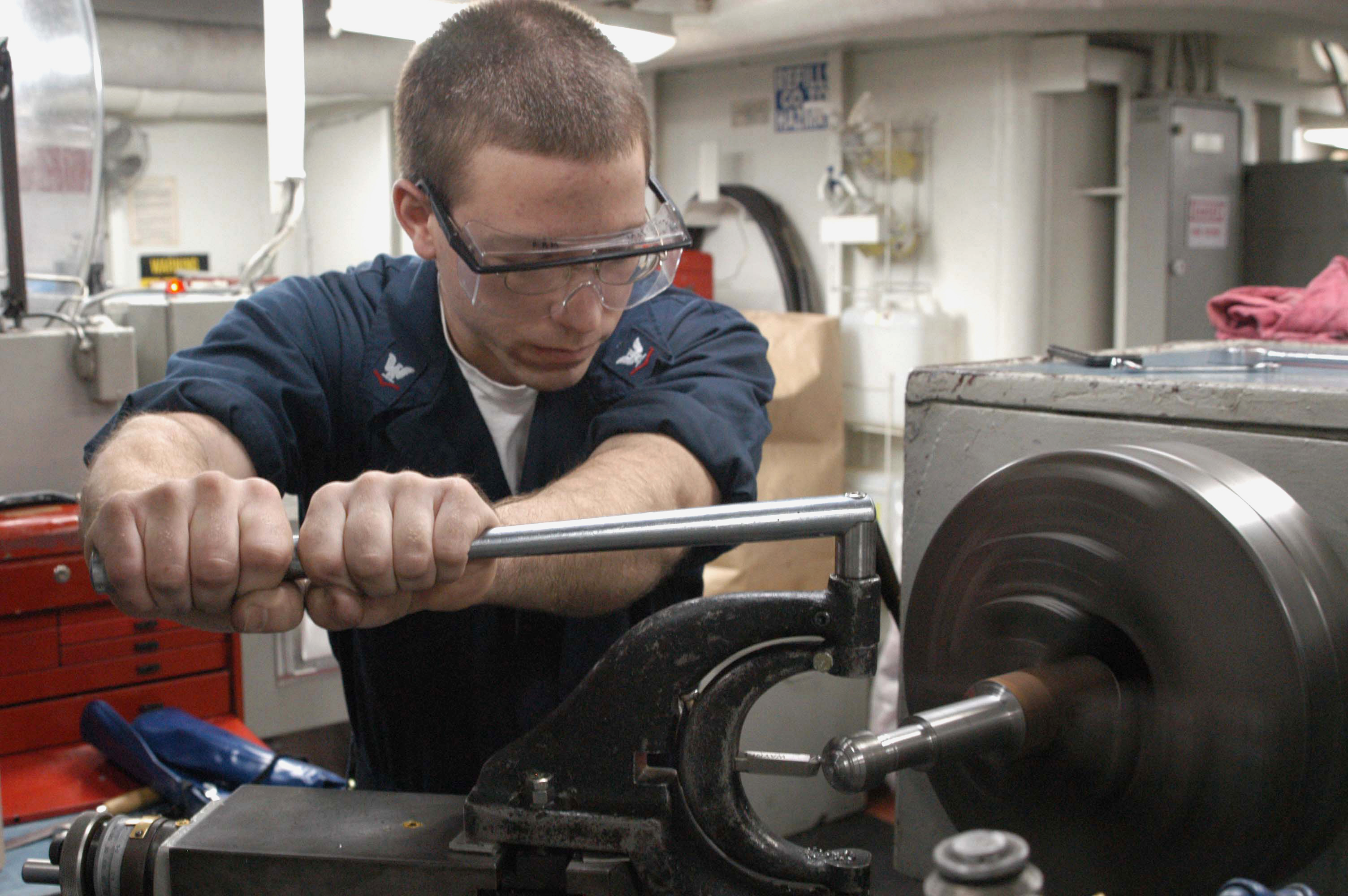 Persian Gulf (Feb. 27, 2003) -- Machinery Repairman 3rd Class Robert Marcote from Columbia, S.C., uses a metal lathe aboard the nuclear powered aircraft carrier USS Abraham Lincoln (CVN 72) to create a Crutch Ball for an SH-60F “Sea Hawk” helicopter. The Crutch Ball aids in the aircraft's rotor blade stability. Lincoln and Carrier Air Wing Fourteen (CVW 14) are conducting operations in support of Operation Southern Watch. U.S. Navy photo by Photographer's Mate Airman Jason Frost. (RELEASED)